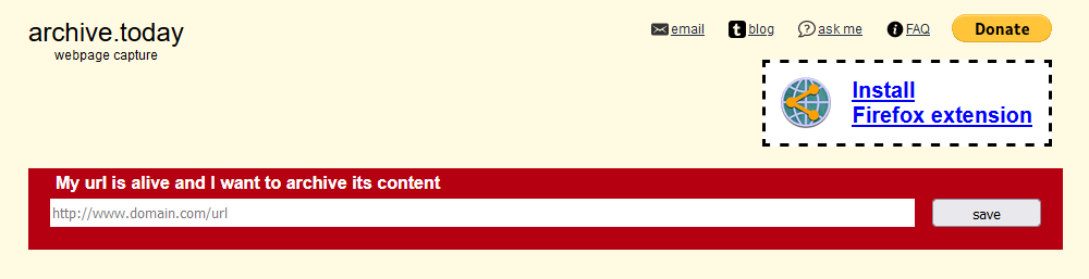 Screenshot of Archive.isTürkçe: Archive.is'in Ekran GörüntüsüBahasa Melayu: Cekupan layar Archive.is